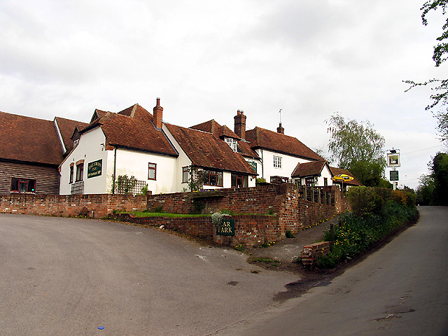 Swan Inn: Lower Green. This pub is situated in the south eastern section of the square.